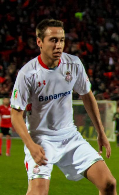 Mexican footballer Carlos Gerardo Rodriguez